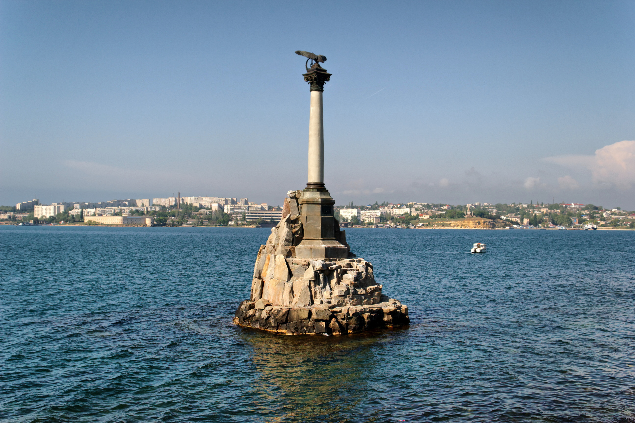 Sevastopol. Monument to flooded ships